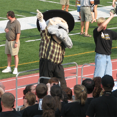 Photo taken 8-19-2006 at the Appalachian State football scrimmage.